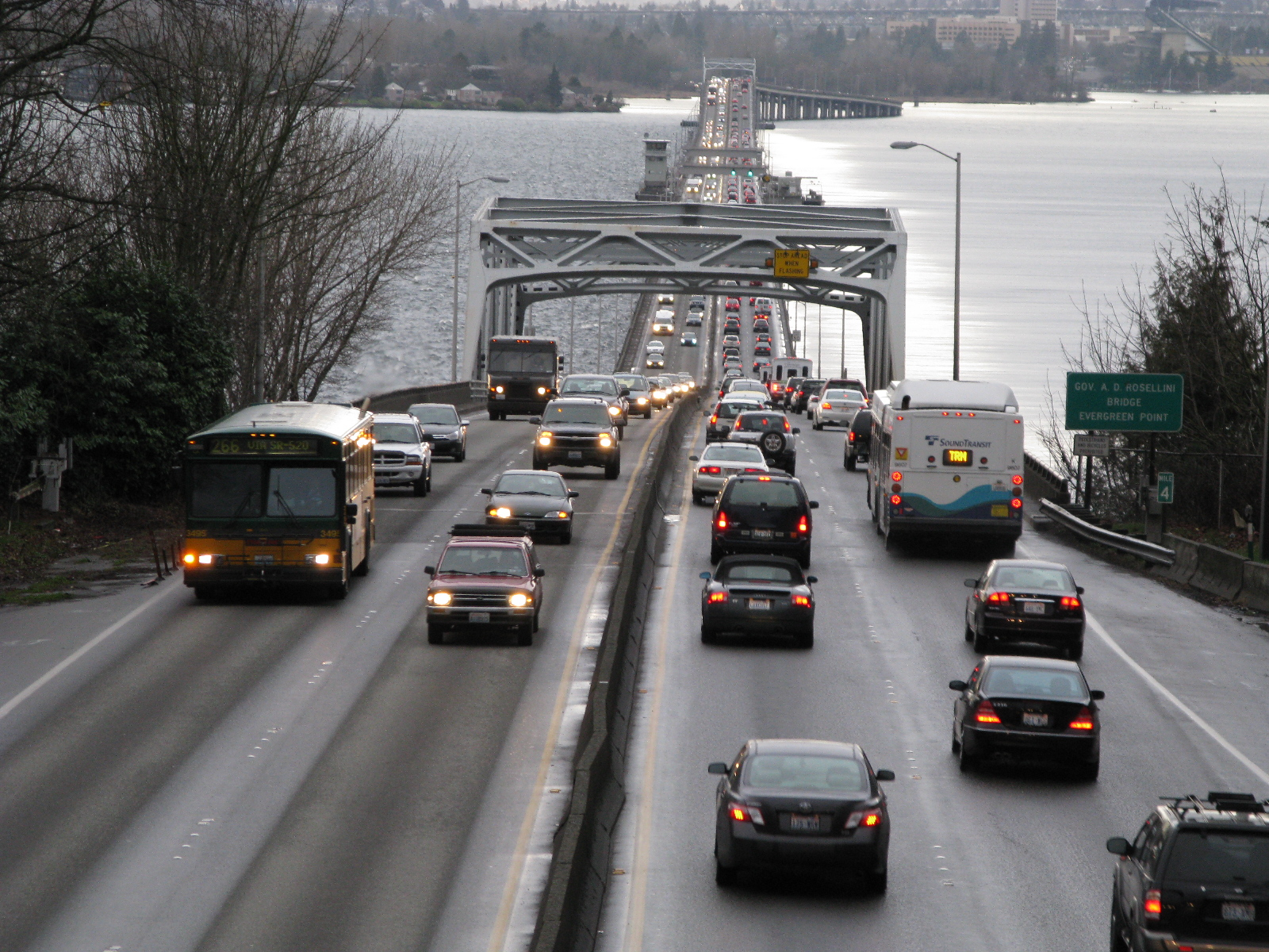 Looking across Lake Washington towards Seattle during the afternoon rush hour